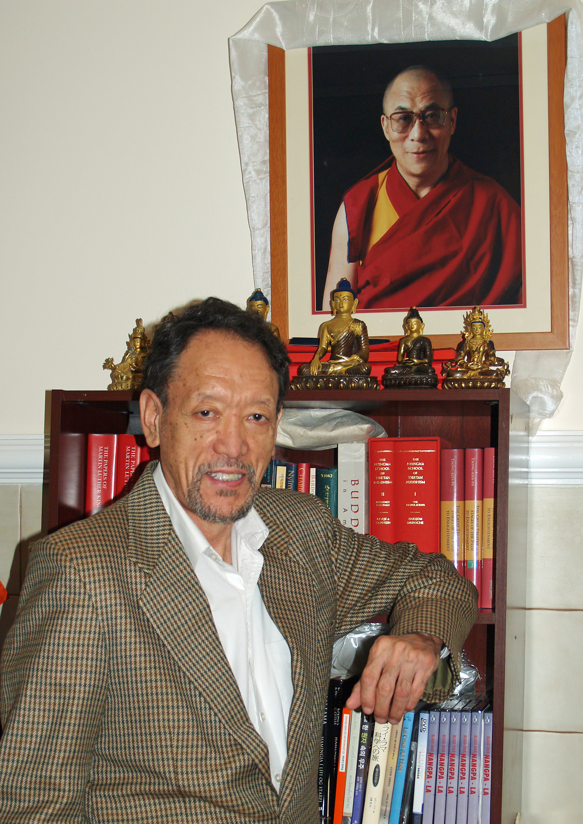 Tashi Wangdi, Representative to the Americas of His Holiness the Dalai Lama